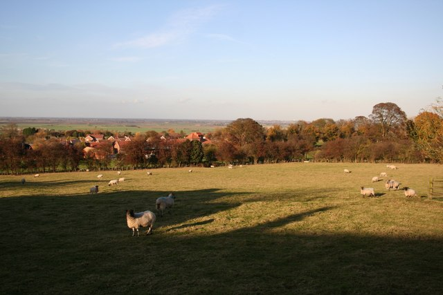 Gringley-on-the-hill Sheep grazing near the village hall